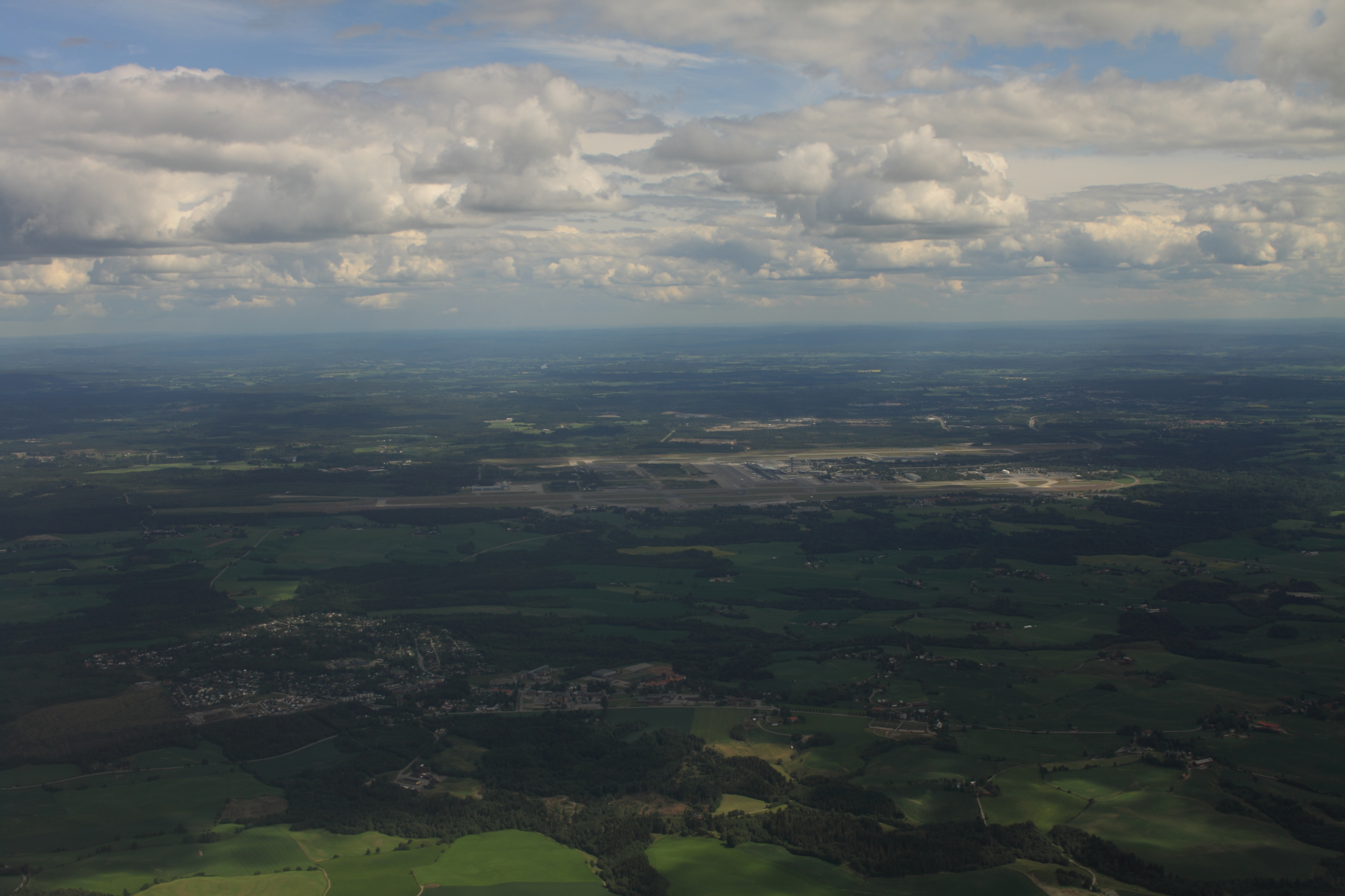 Photo of Oslo Airport Gardermoen from commercial flight.